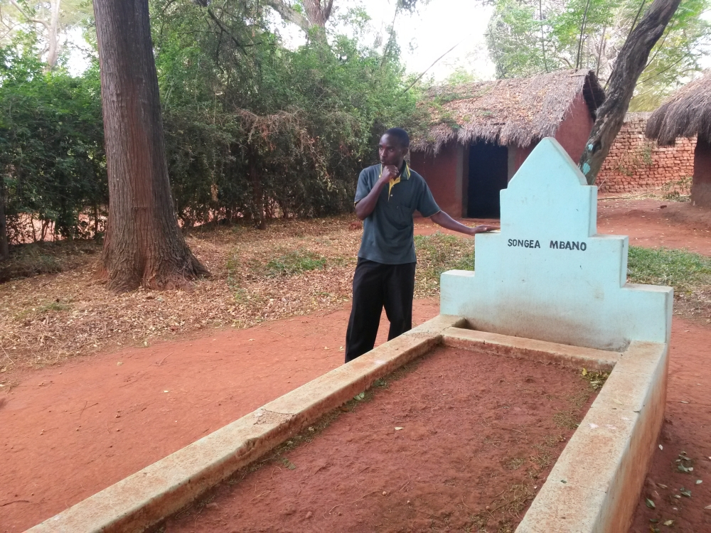 Grave of Songea Mbano within the Maji Maji museum in the town of Songea